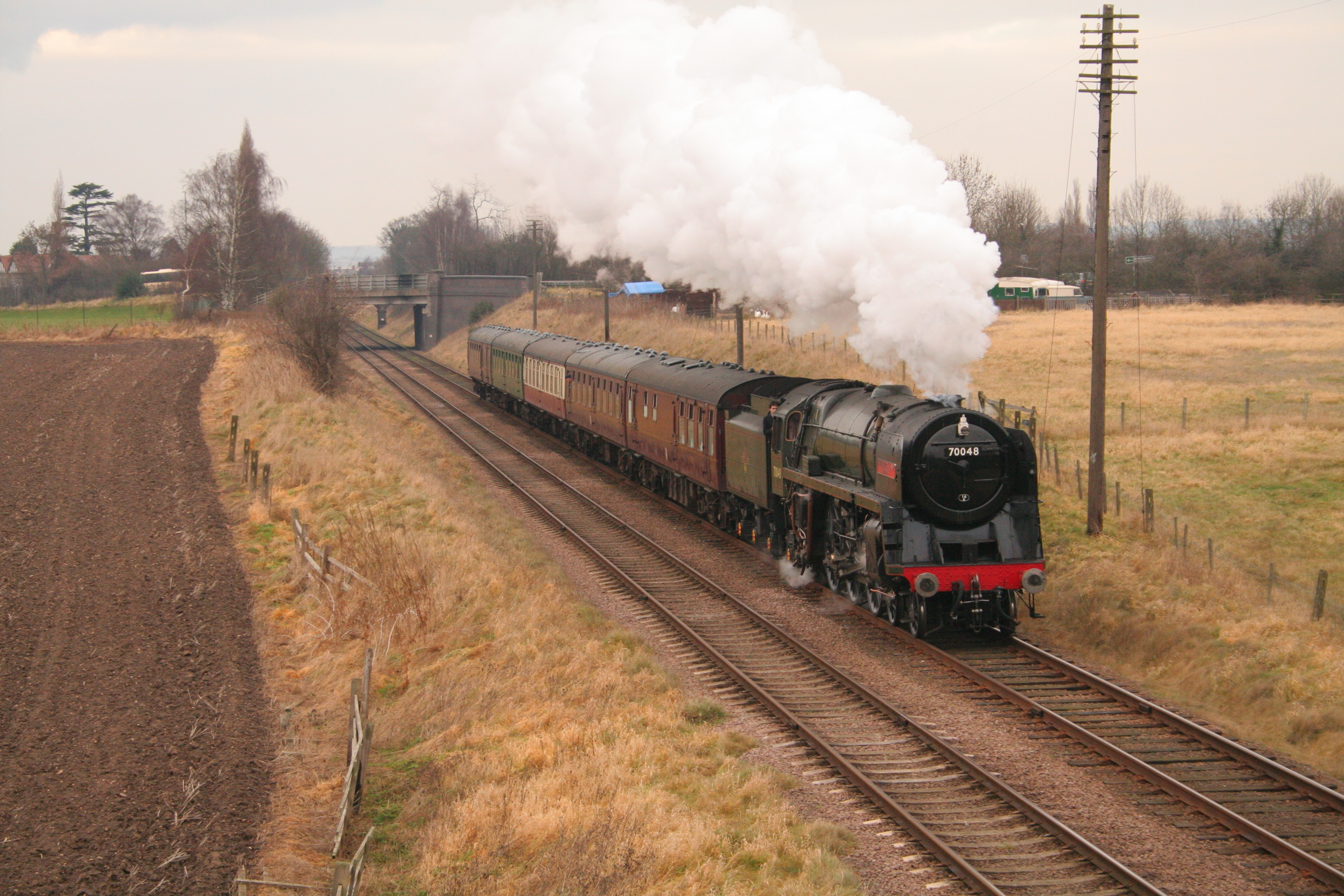 "70048" approaching Woodthorpe road bridge